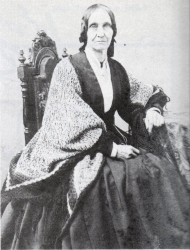 Portrait of abolitionist Amy Post, 1860s